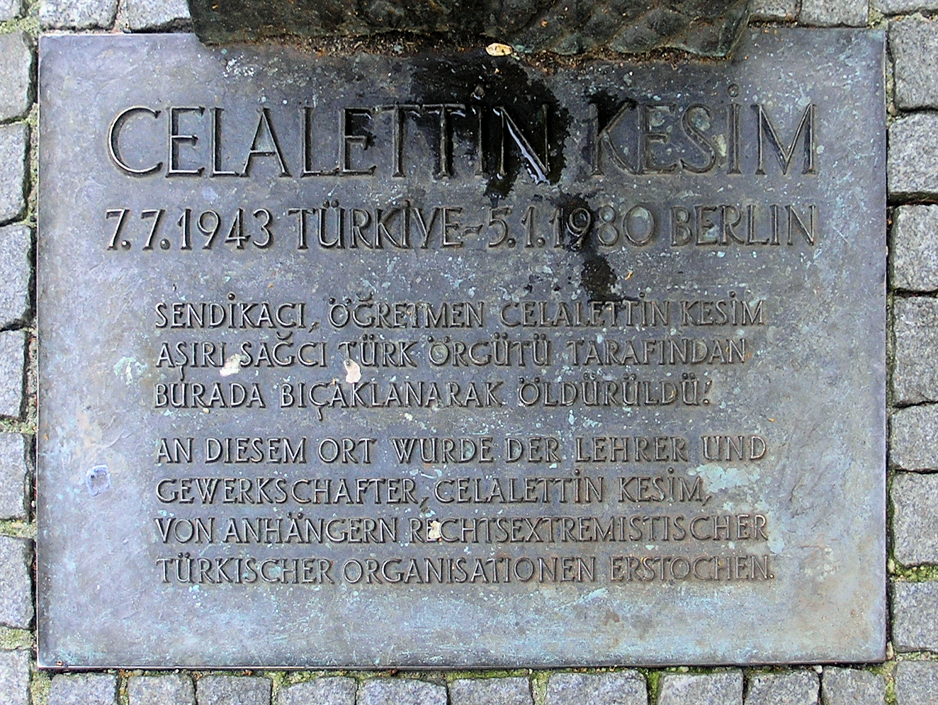 Memorial plaque, Celalettin Kesim, Kottbusser Straße 28, Berlin-Kreuzberg, Germany